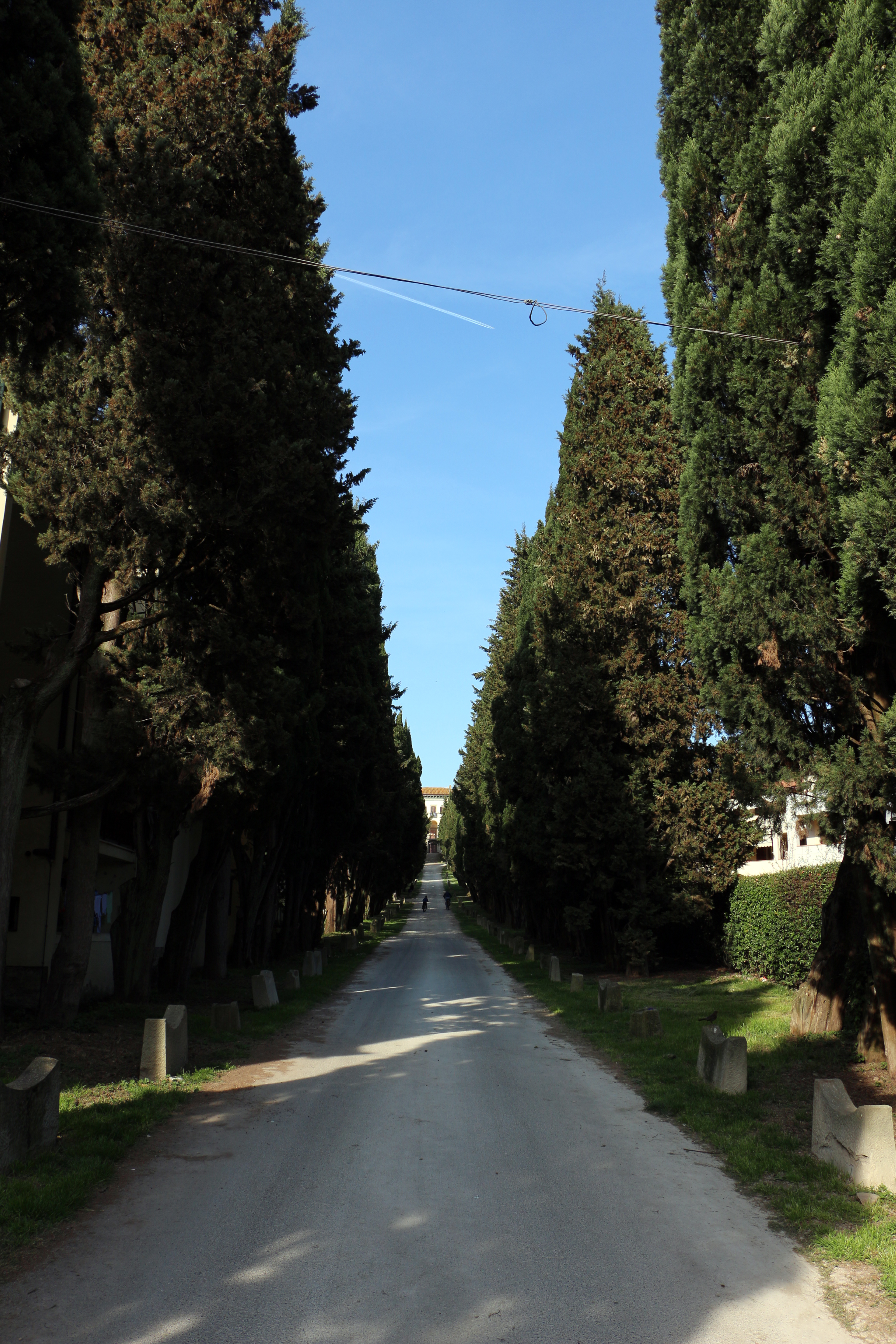 Villa di Poggio Reale (Rufina)